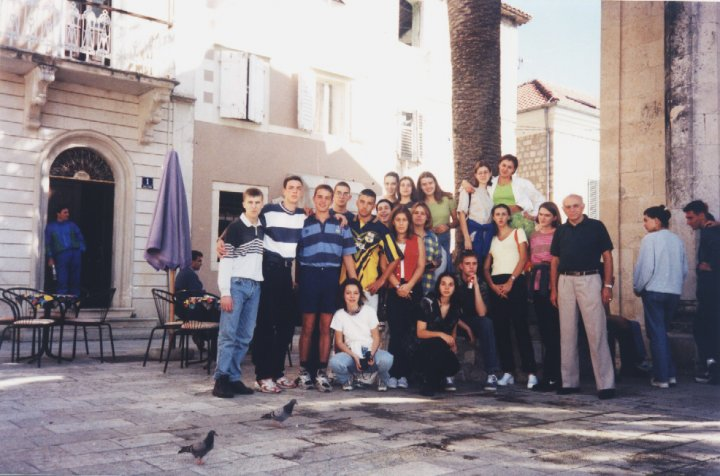 Vene Bogoslavov with his students in Athens